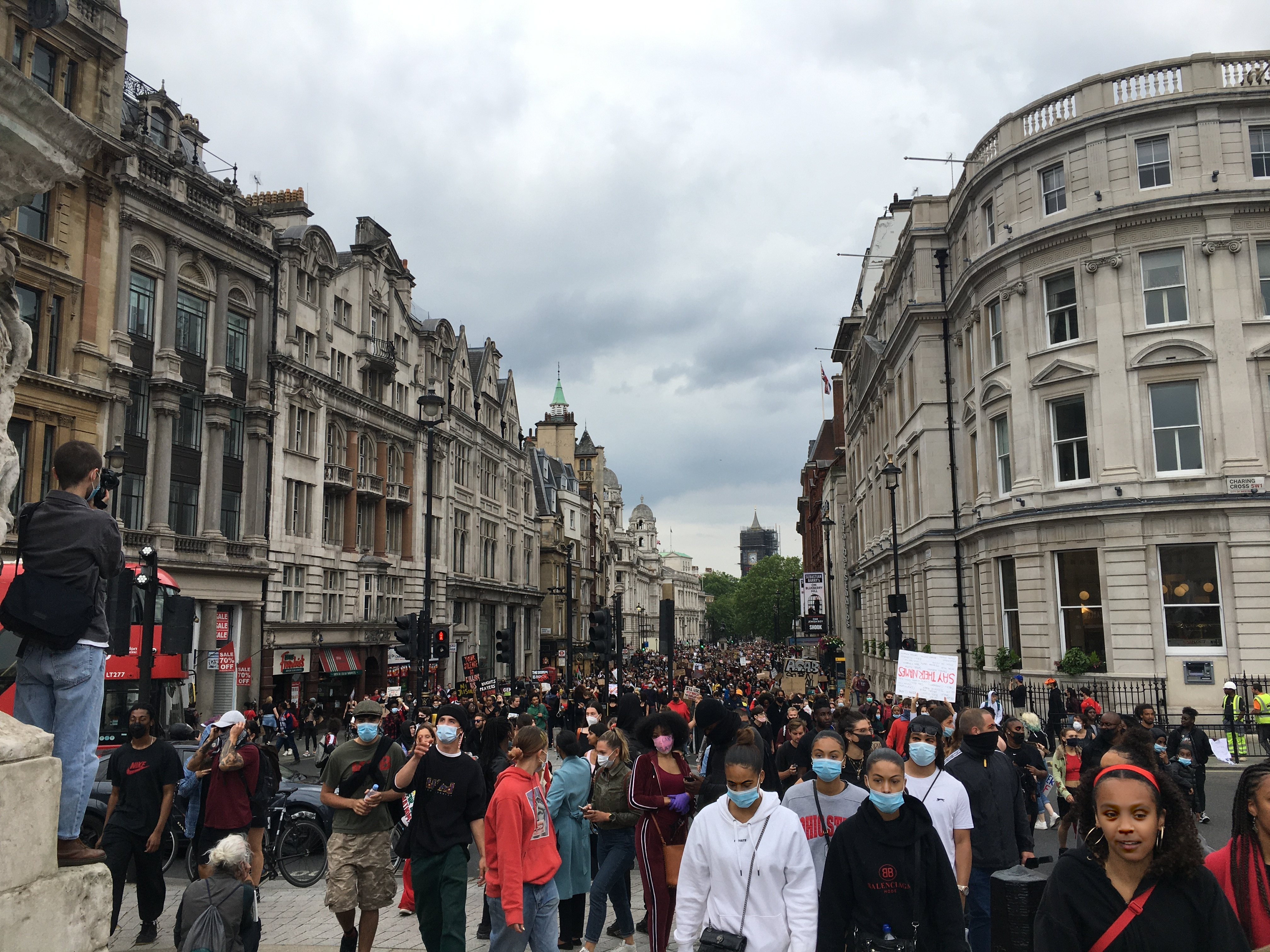 The London Black Lives Matter peaceful protest starting in Hyde Park on 3.6.20, in support of the USA's protests for BLM, sparked by the death of George Floyd, and to fight for the eradication of racism in UK police and society.